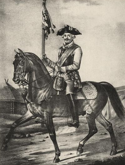 Cornet of a Cuirassier regiomnt of the Russian Imperila Army, from 1756 to 1762.